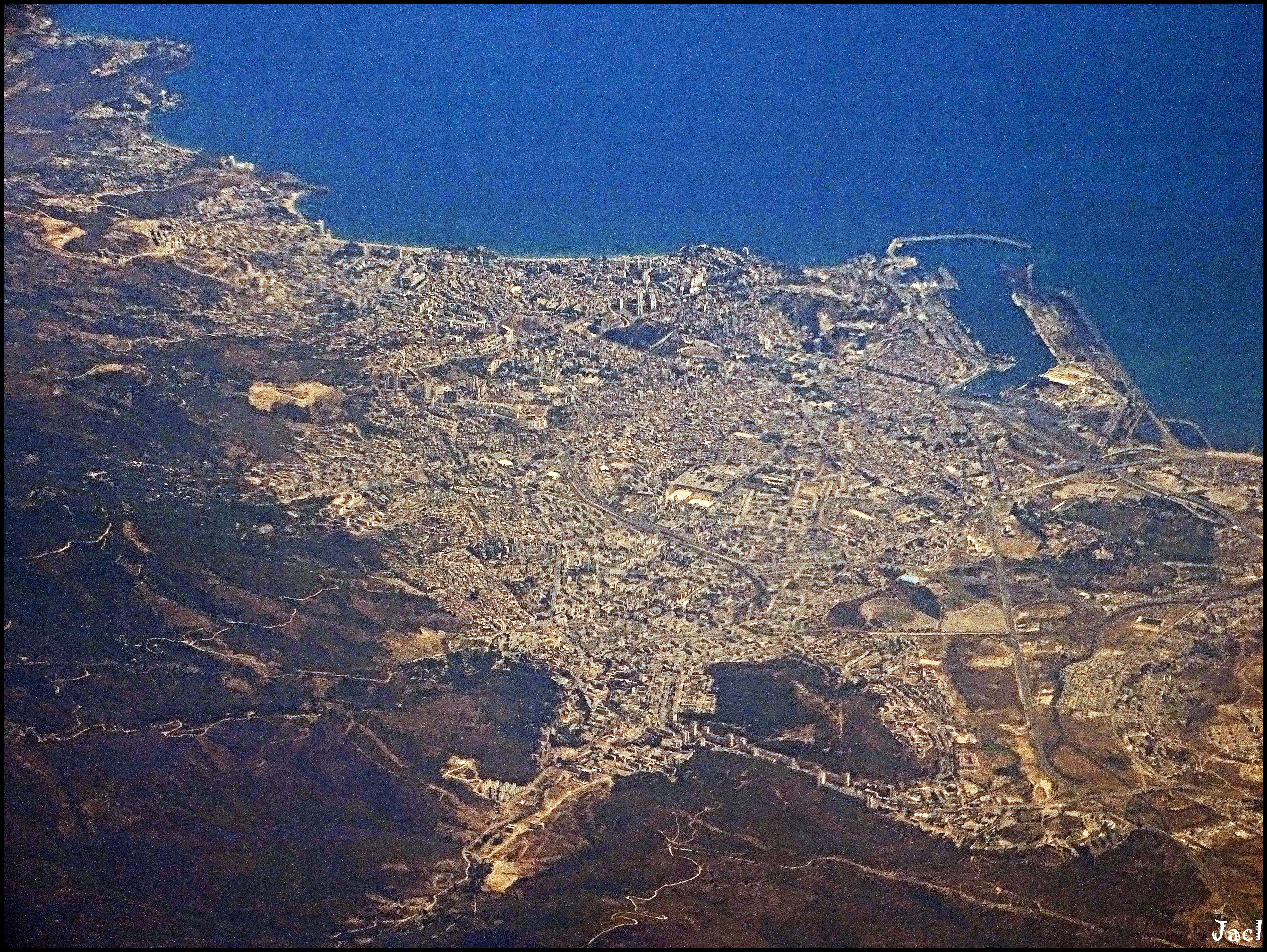 Annaba from the plane (Flight Malta-Madrid)